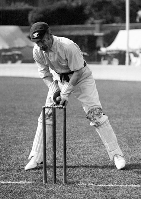 Preb Archdale Palmer Wickham, Somerset, circa 1905.